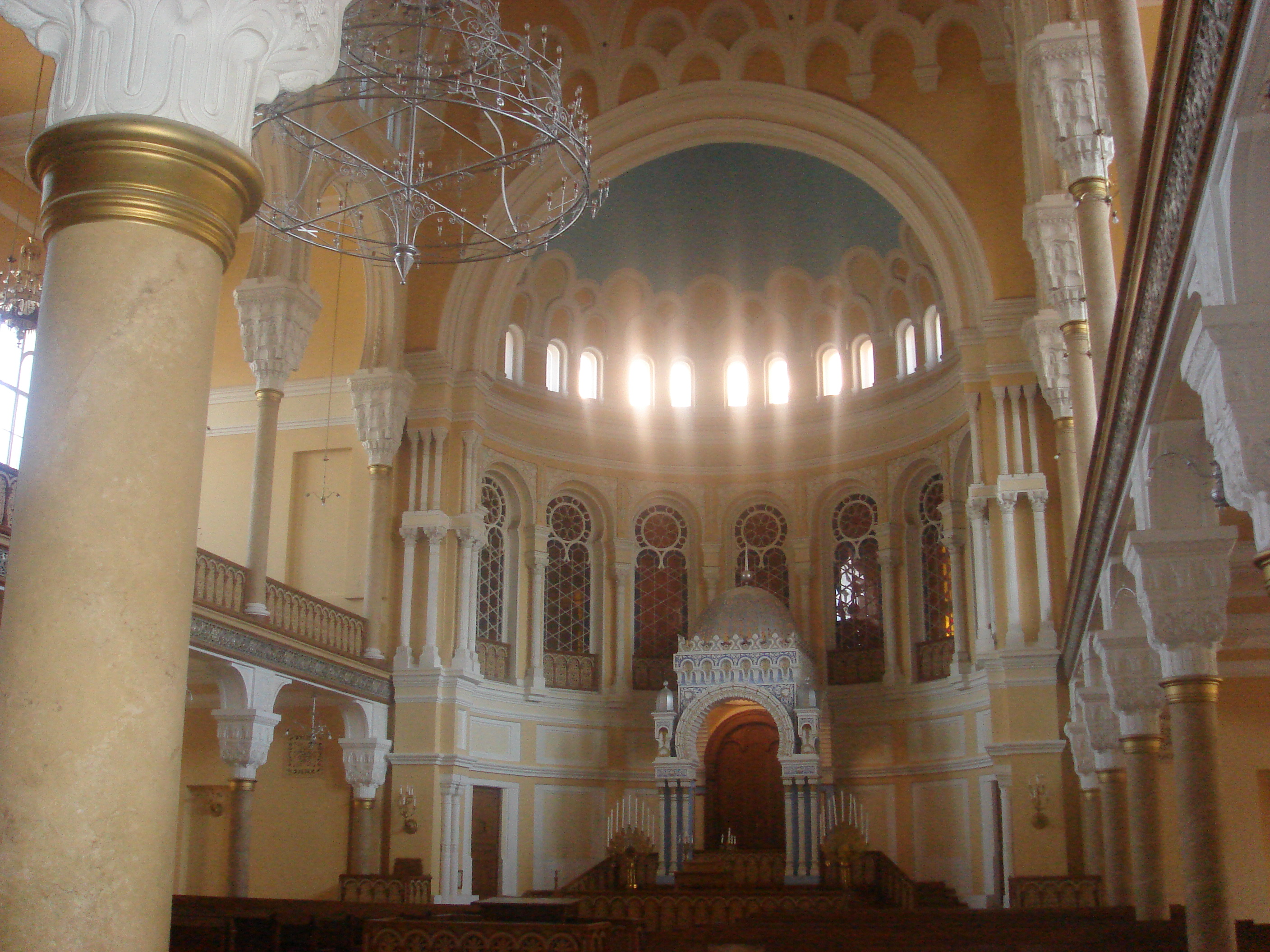 Interior of Saint Petersburg Synagogue, synagogue